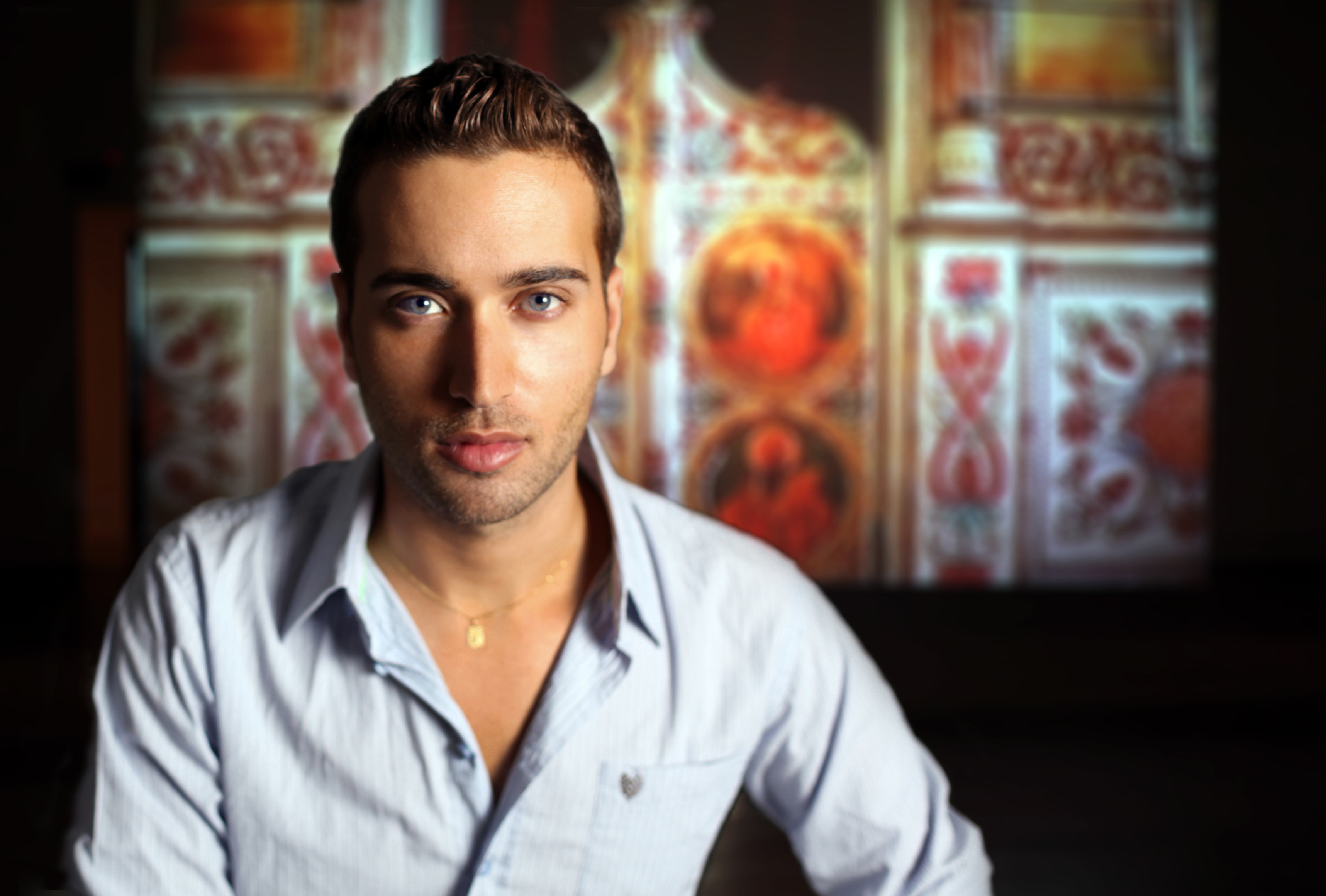 Portrait of Dor Guez by Dvora Orbach